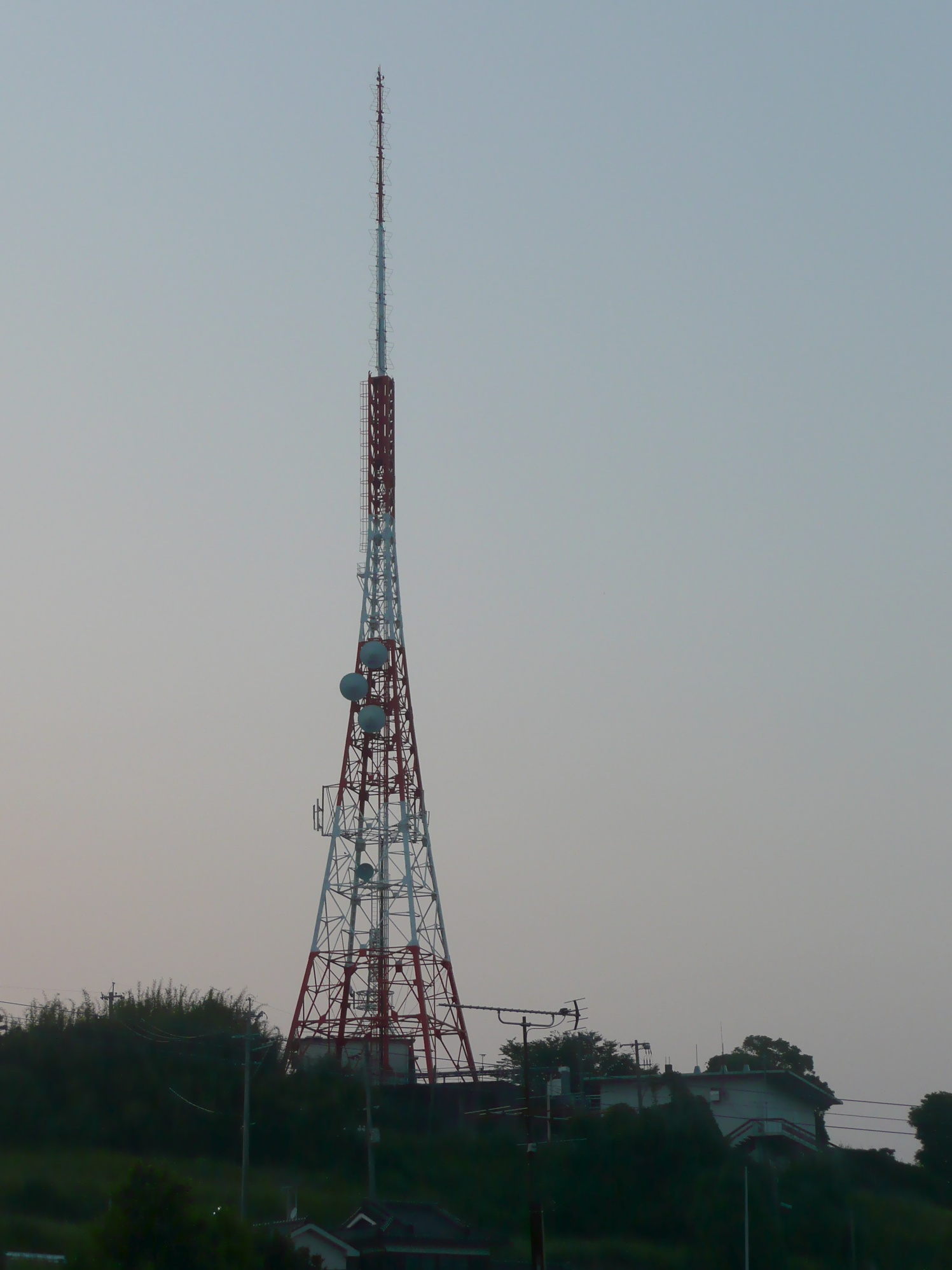 MBC (Minaminihon Broadcasting, JOCF-TV, Analog TV) & FM Kagoshima (μFM, JOOV-FM) Kagoshima Transmitting Tower (Shiroyama, Kagoshima City, Japan) in 1959-2011.